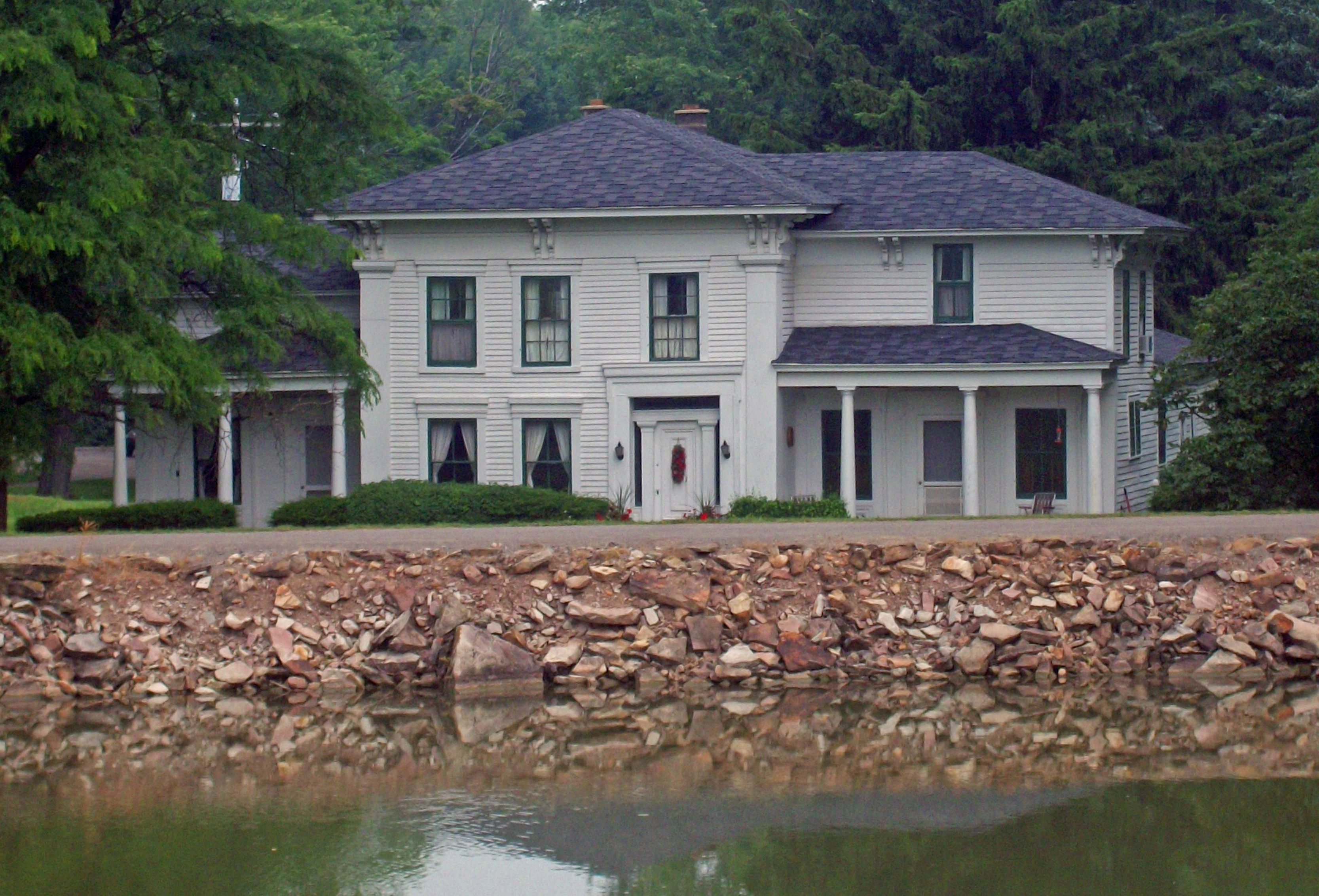 Servoss House, on the Erie Canal west of Medina, NY, USA